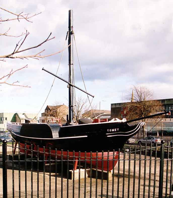 replica of PS Comet sited in Port Glasgow town centre. photograph taken by dave souza